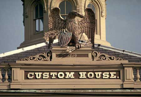 Salem Custom House-architectural eagle This is the eagle, and the custom house, discussed by Nathaniel Hawthorne in the introduction to The Scarlet Letter. From